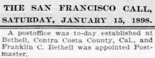 Newspaper clipping documenting the establishment of the post office at Bethell Island, Contra Costa County, California